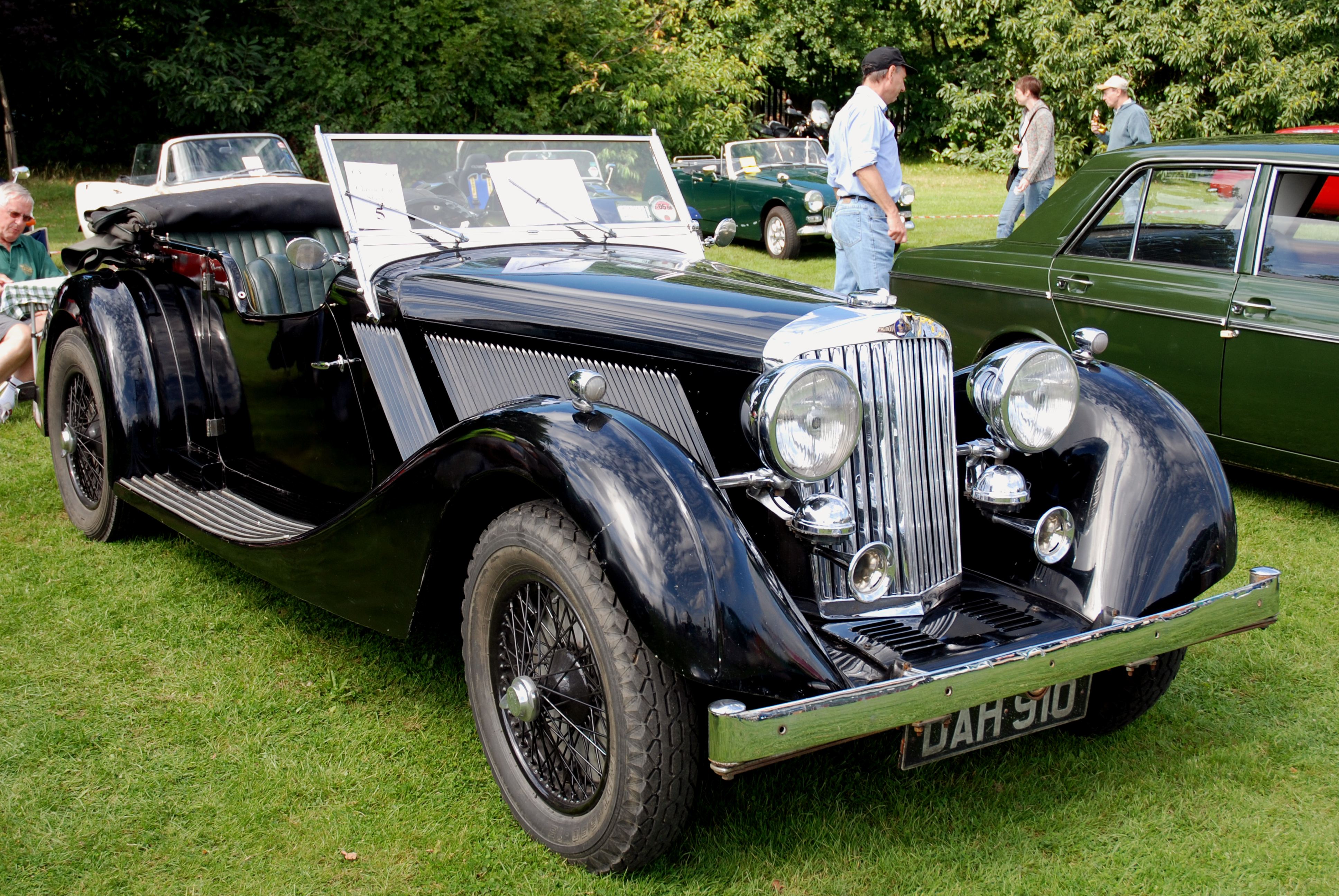 1936 Talbot 110 at Woking Summer Festival, Surrey